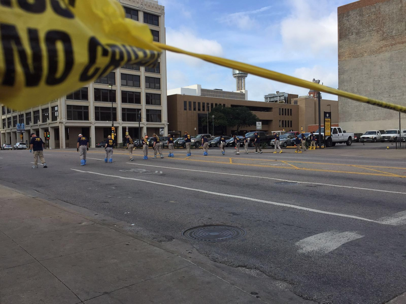 Law enforcement personnel investigate a mass shooting scene after an attack that killed and wounded Dallas police officers, in Dallas, Texas, July 8, 2016.